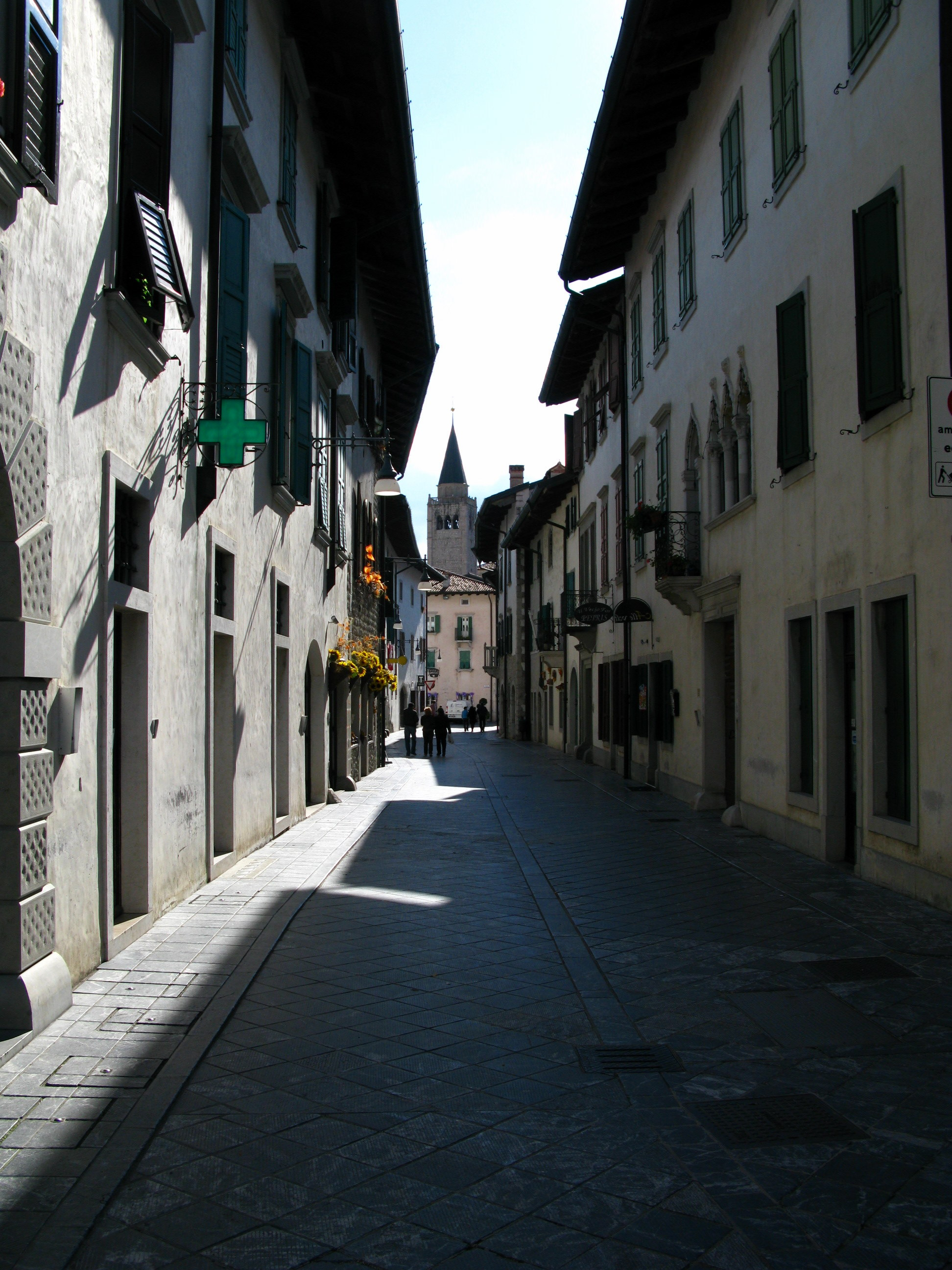 Narrow street (Via Mistruzzi) in the city of Venzone in Tagliamento valley / Friuli-Venezia Giulia / Italy / EU.